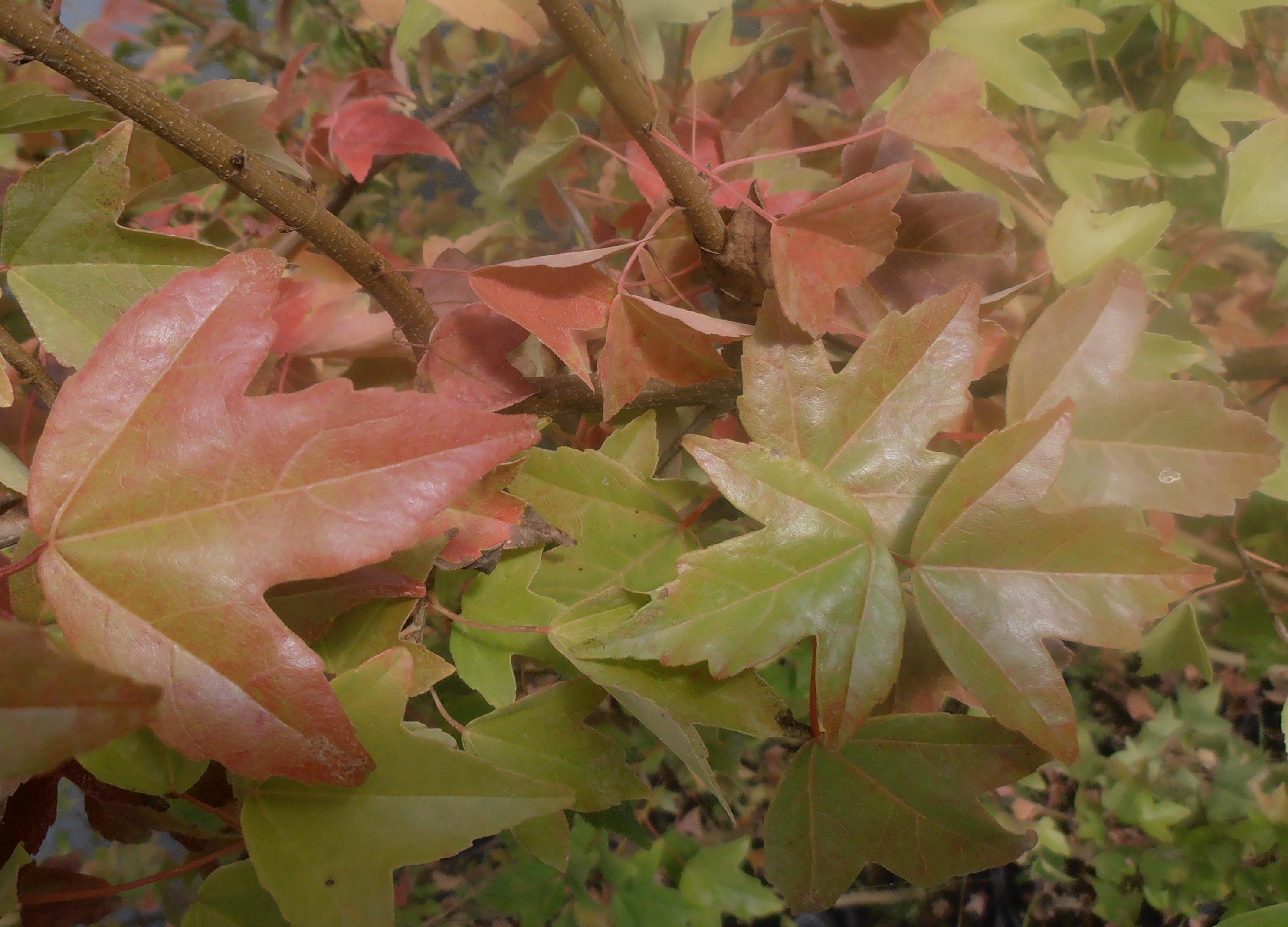 Trident Maple – autumn leafs